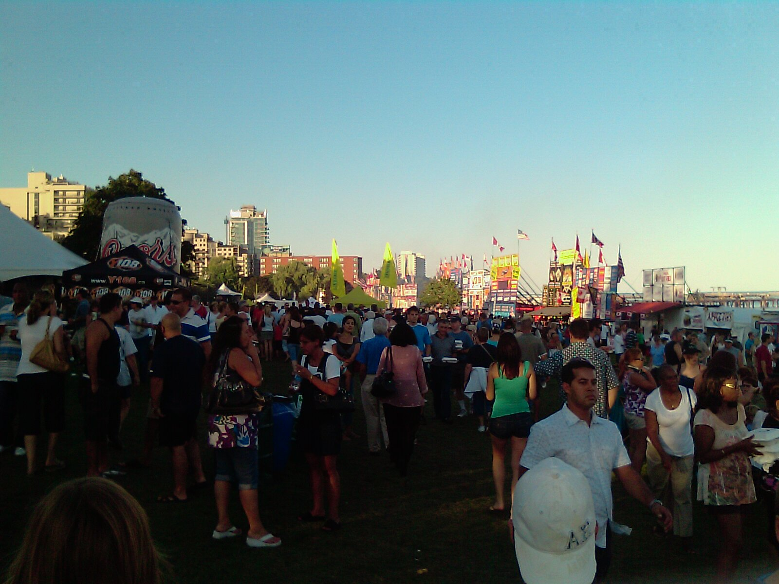 Burlington Ribfest 2008